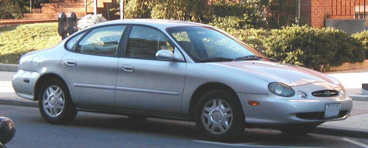 1998-1999 Ford Taurus photographed in USA.